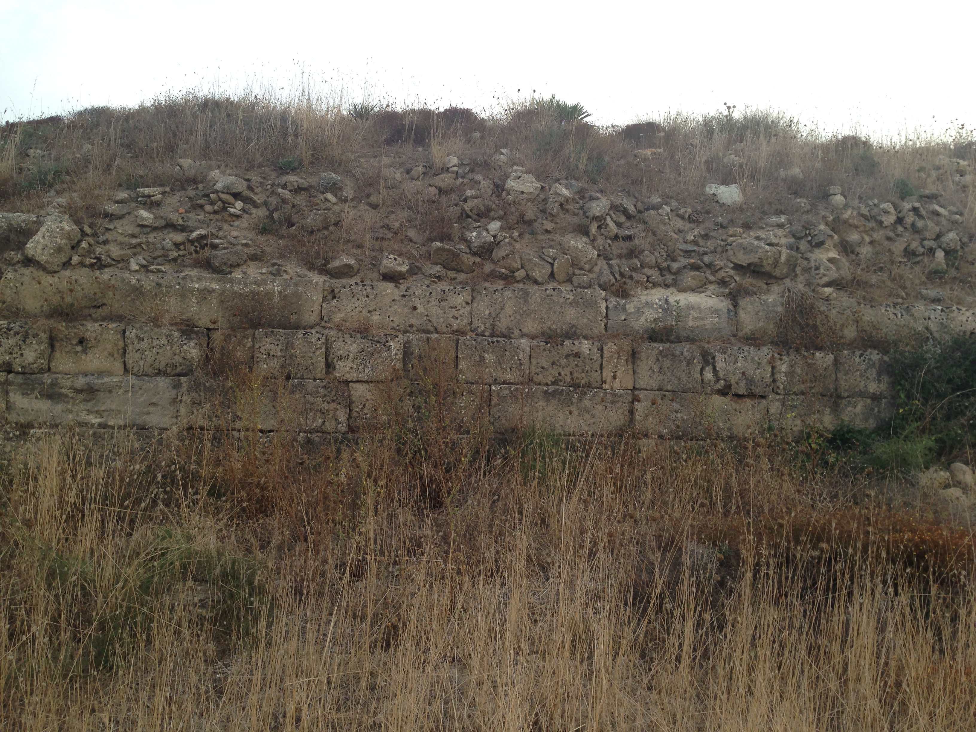 Walls of Eloro